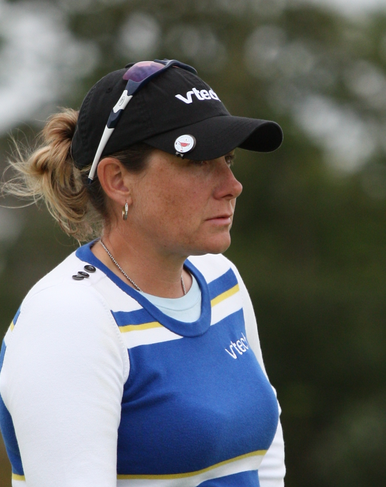 LYTHAM ST ANNES, UNITED KINGDOM - JULY 29: Karen Stuples of England on the 11th green during third practice round before 2009 Ricoh Women's British Open held at Royal Lytham & St Annes on July 29, 2009 in Lytham St Annes, England. (Photo by Wojciech Migda)